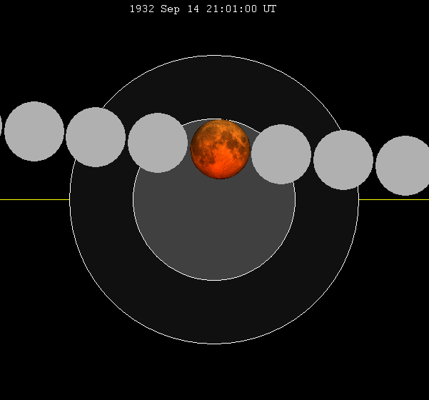 =lunar eclipse chart of moon's path through the earth's shadow. thumb